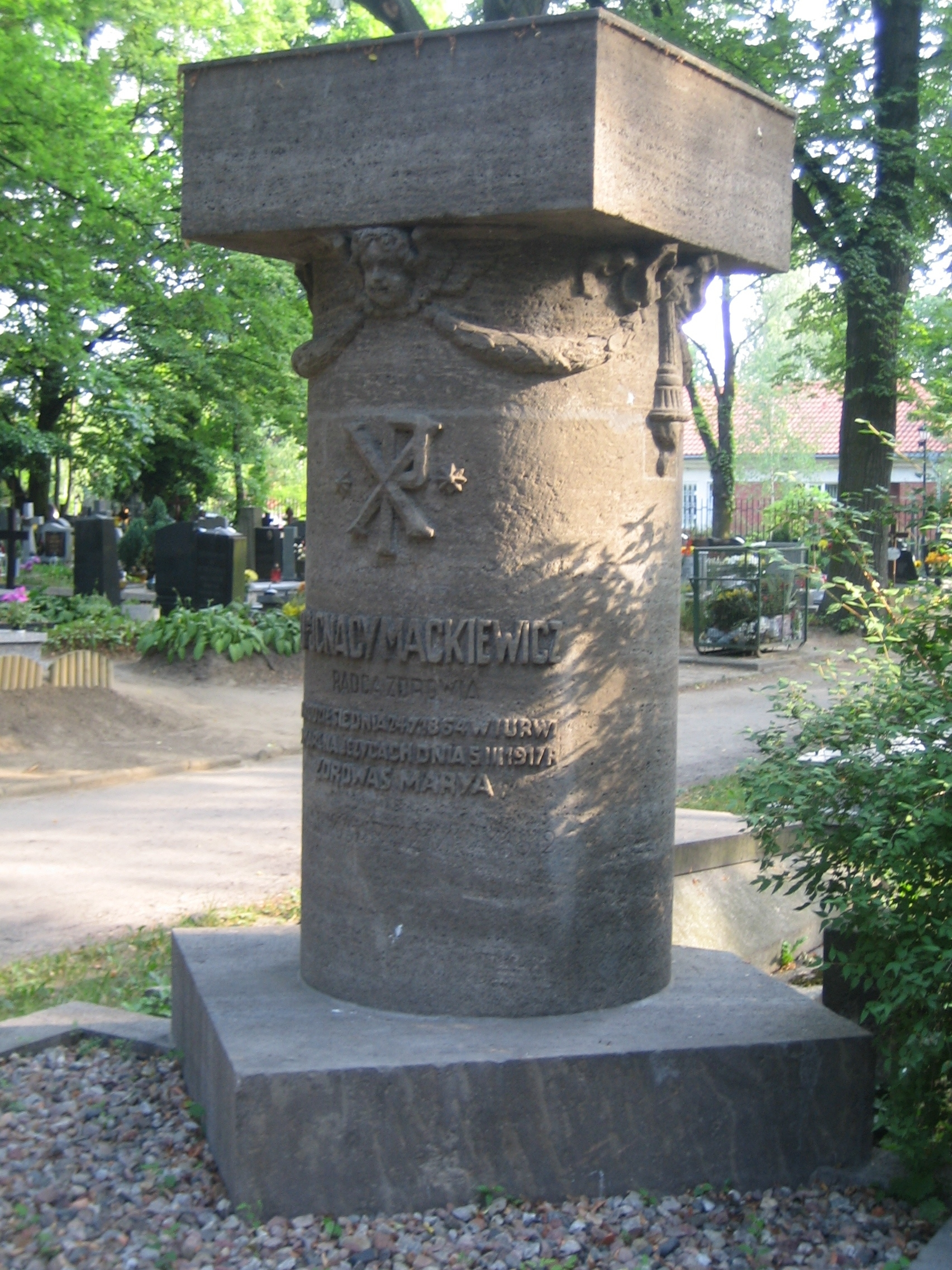 The tombstone of Ignacy Mackiewicz at the Jeżyce Cemetery in Poznań